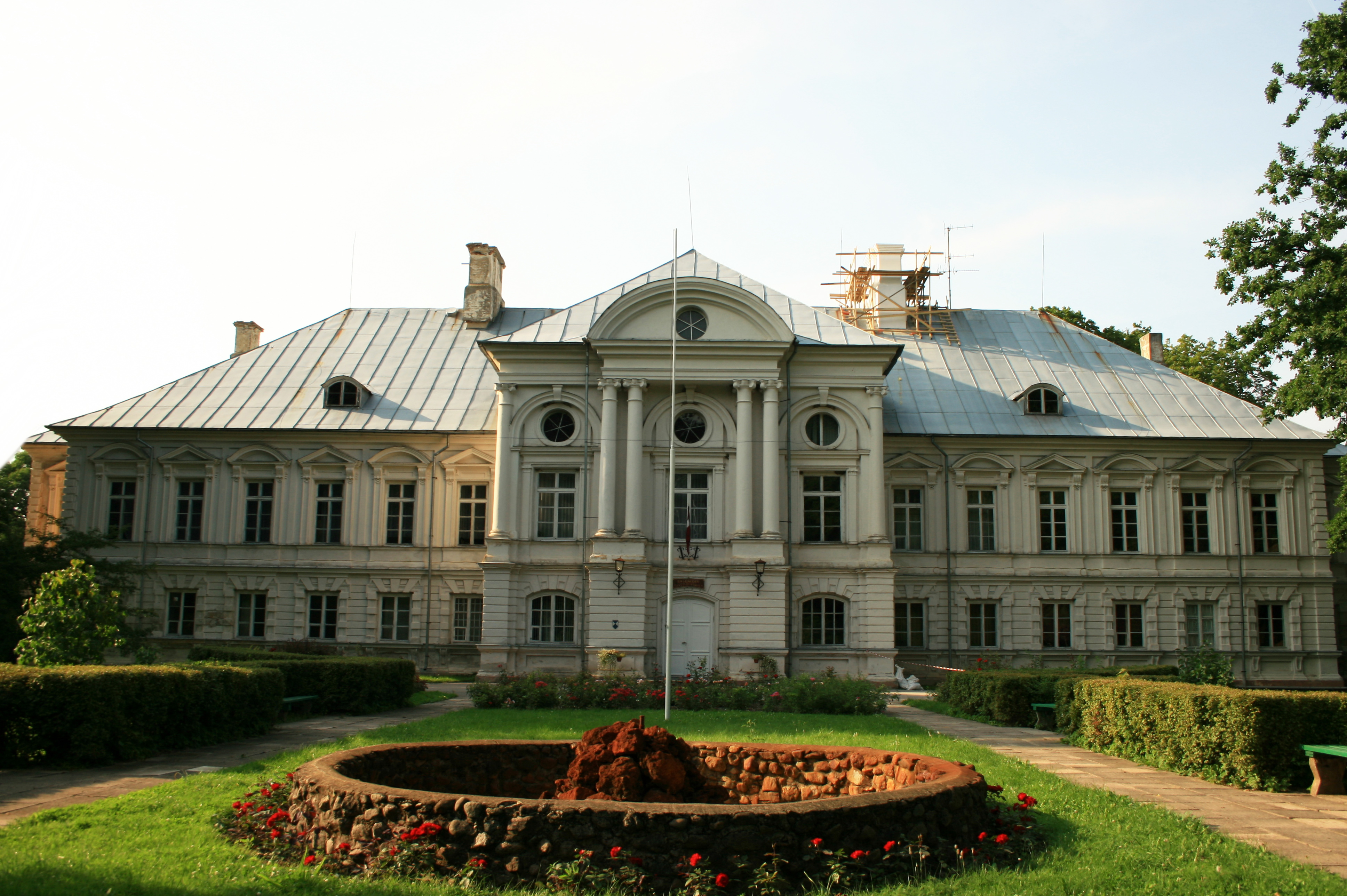 Zaļenieki Manor